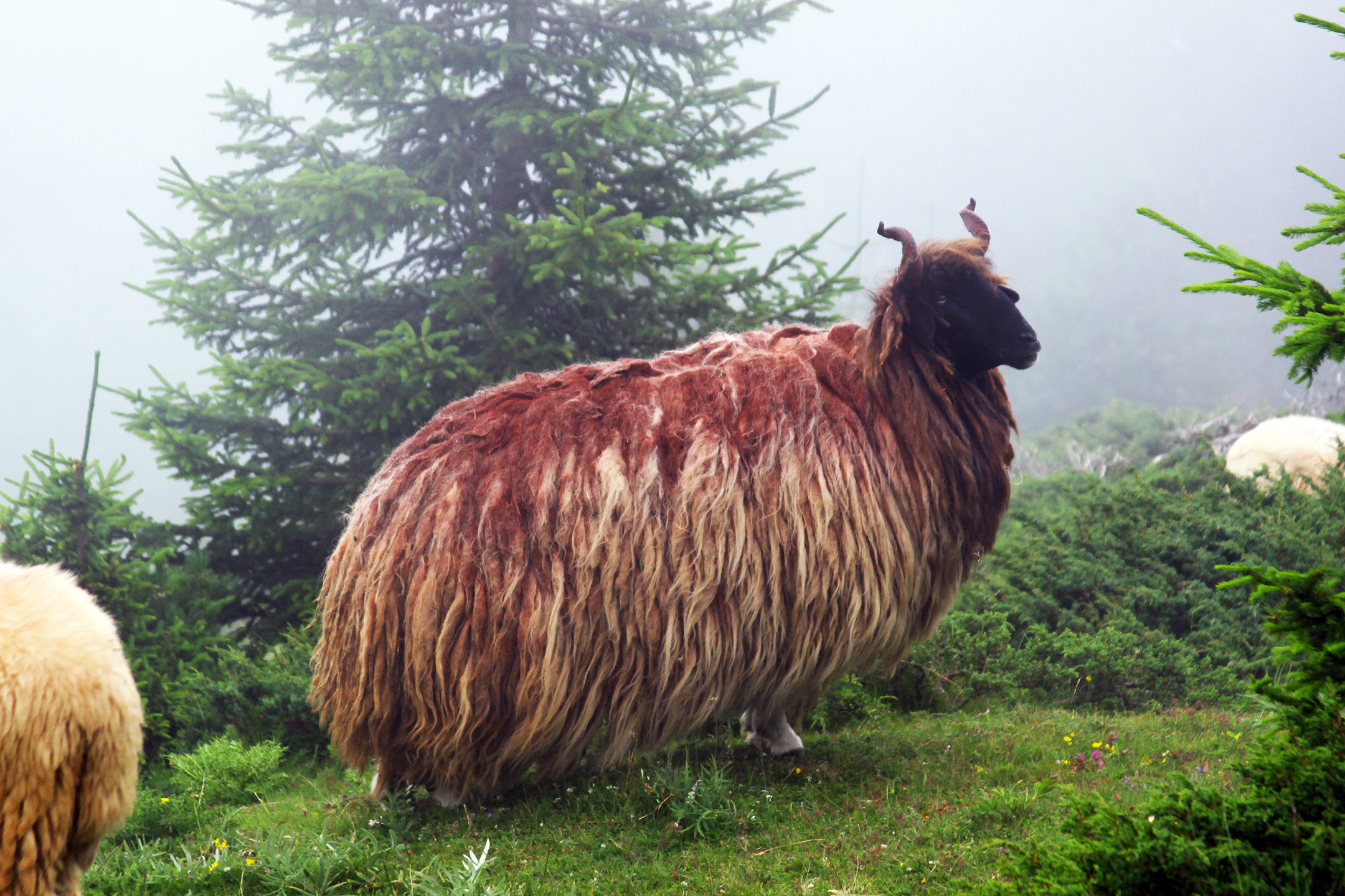 Typical Rugova gorge male Sheep